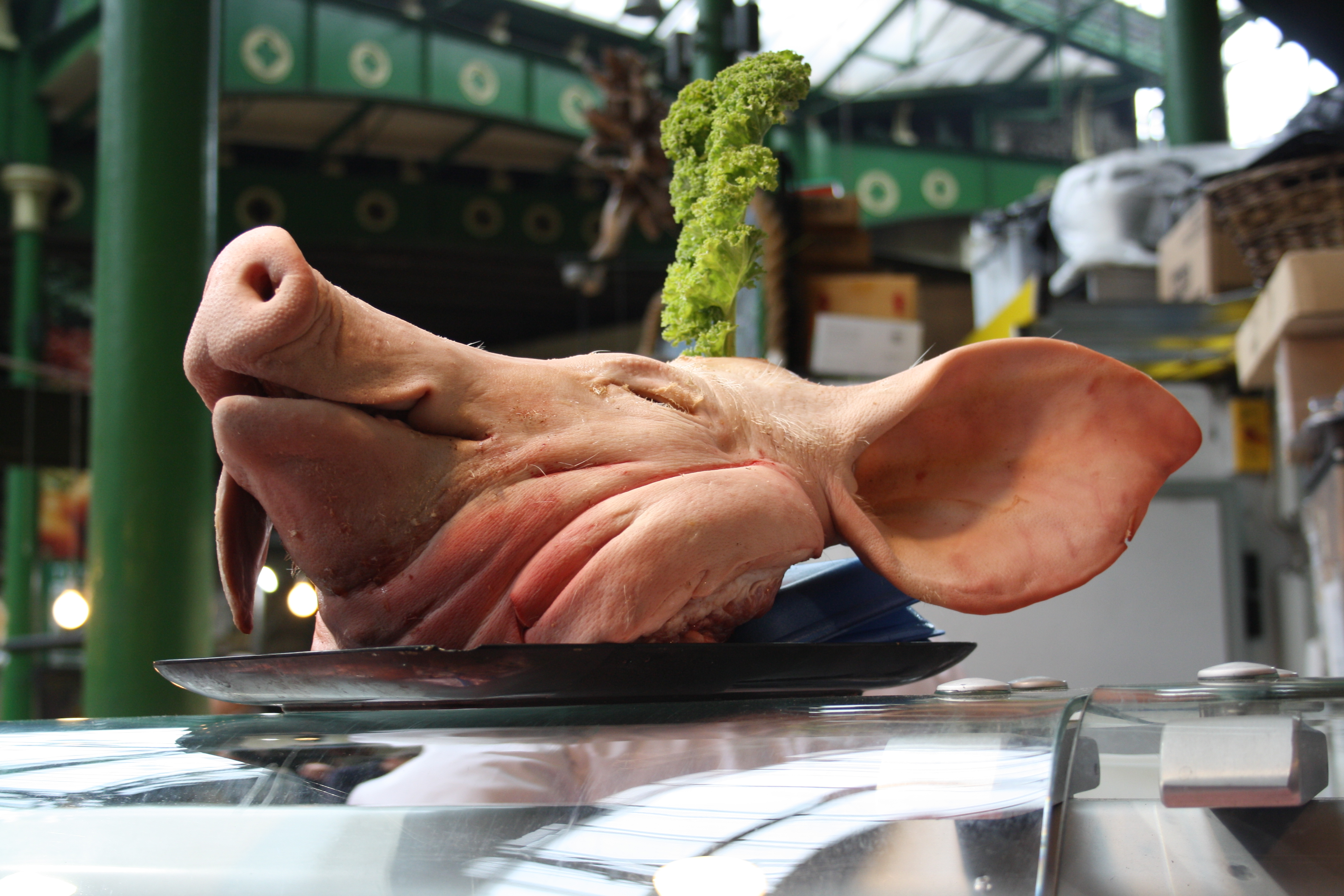 Pig Head